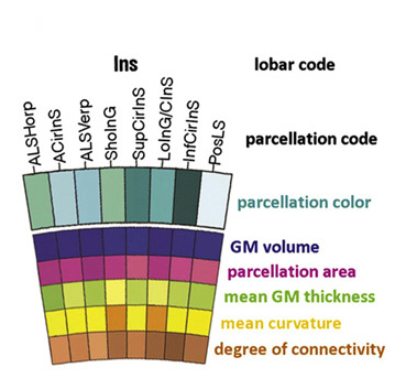 This key explains what metadata is contained within each ring of the connectogram and how to read a connectogram.